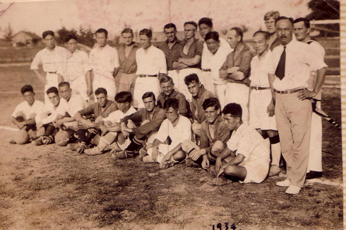 1934. Yuh Woon-Hyung